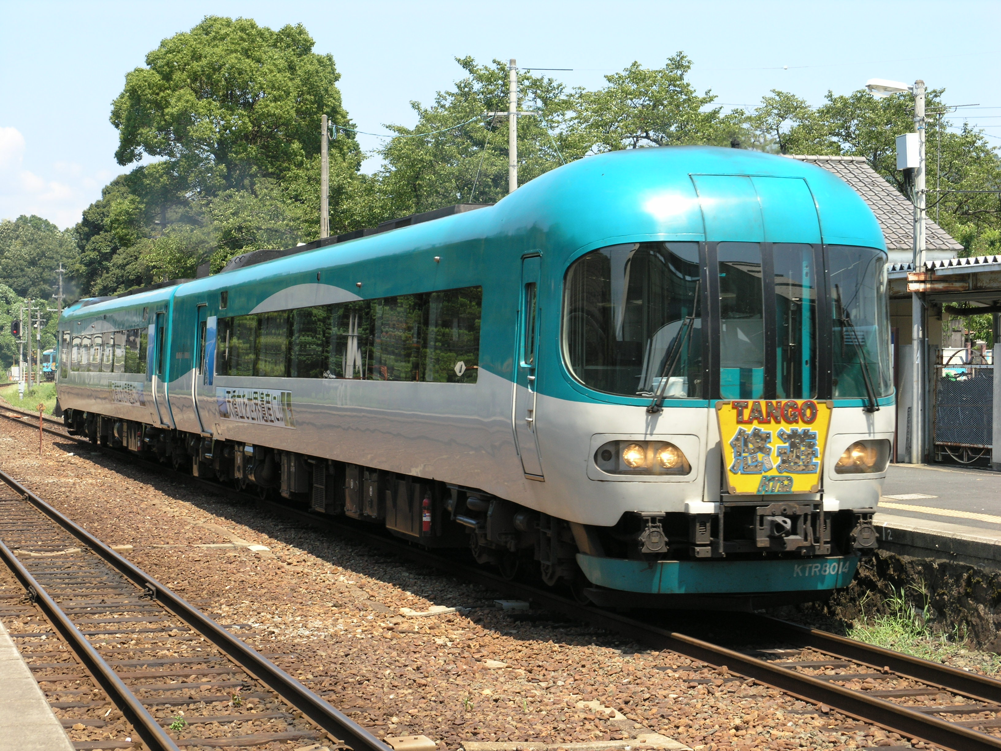 Kitakinki Tango Railway KTR 8000 DMU for the Tango Yuyu-go train